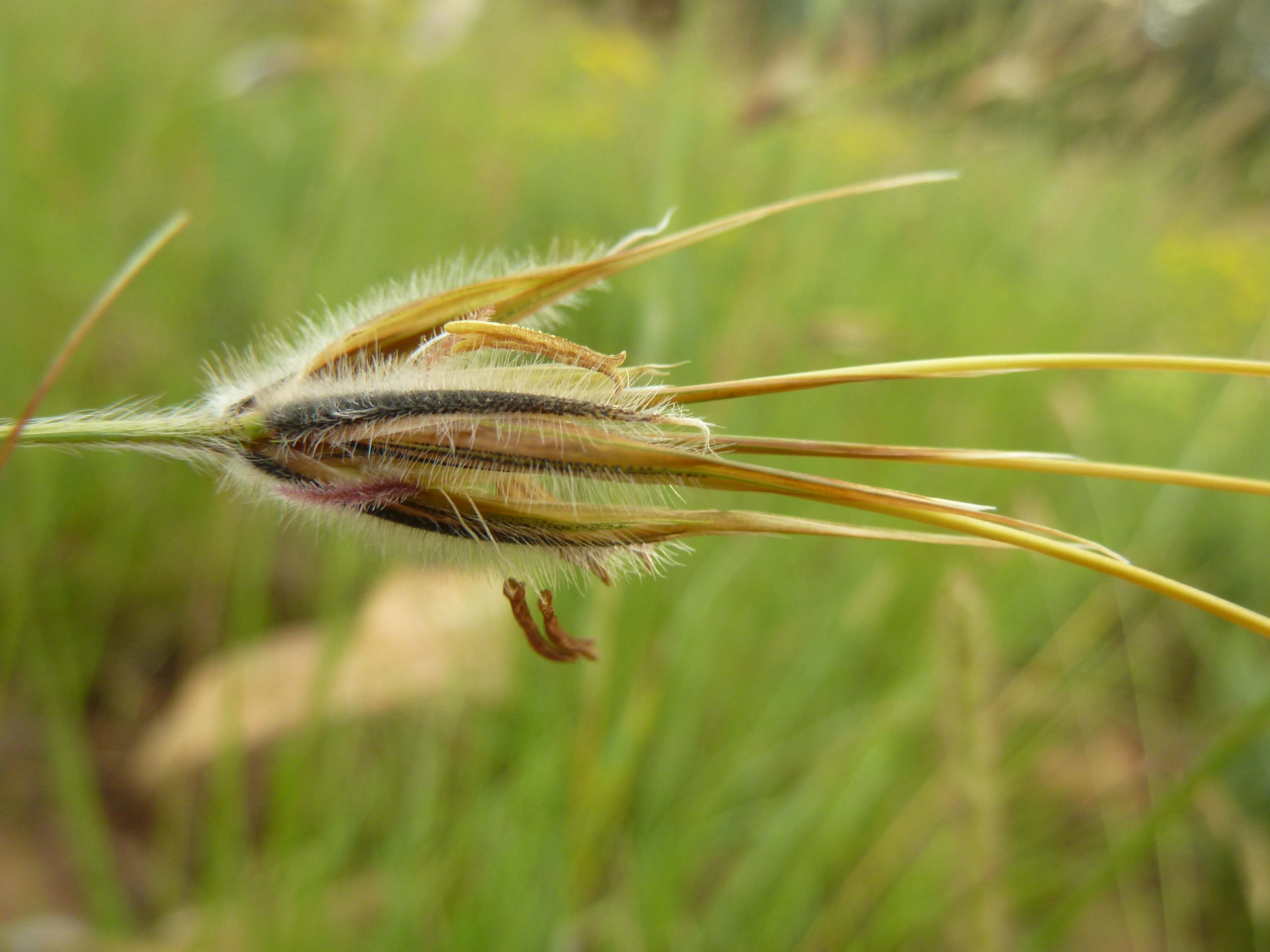 Spikelet of Hairy trident grass near the crest of the Magaliesberg, near Skeerpoort, South Africa